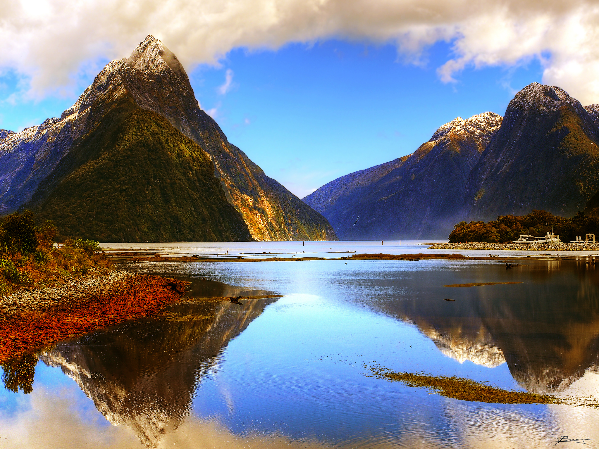 Morning reflections in Milford Sound, Mitre Peak on the left